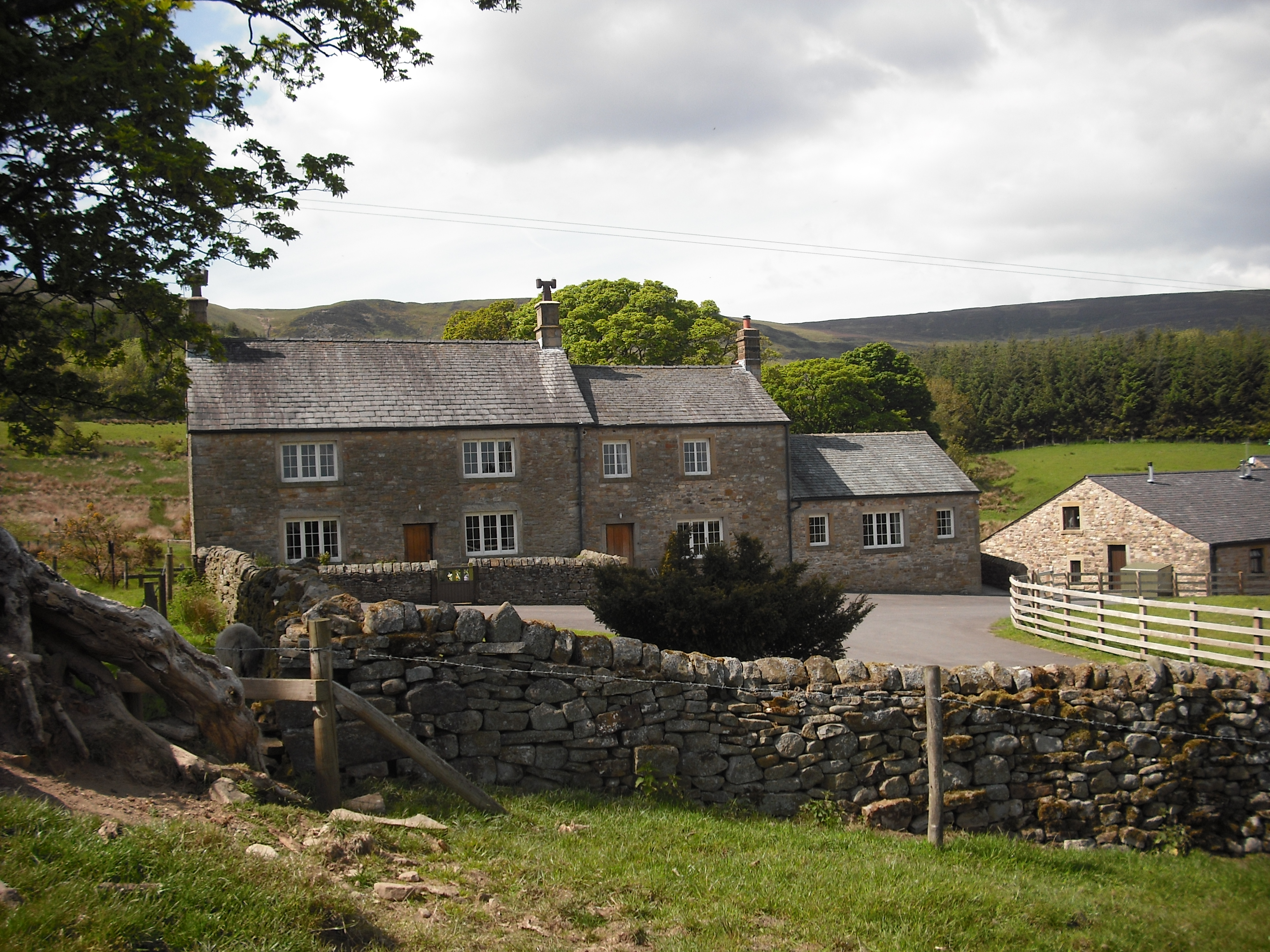 Woolfen Hall, Chipping, Lancashire